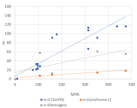 of change